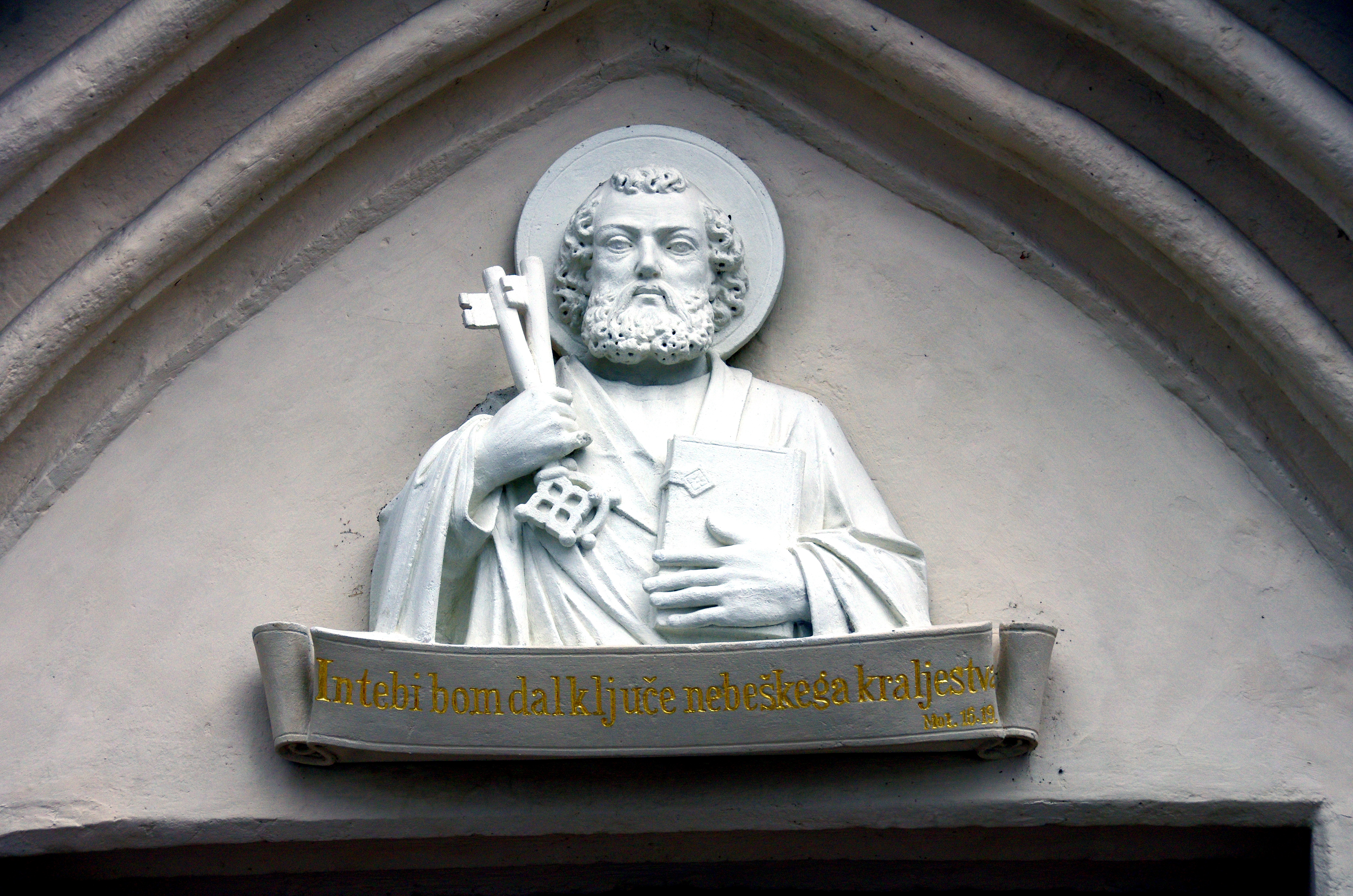 Relief of St. Peter with a quotation in Slovene from the Gospel of Matthew (Mt 16:19). The entrance portal of St. Peter's Parish Church in Radovljica.